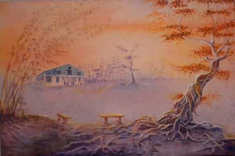 Photo of painting by Elito Circa the CLSU Reimers Hall Size, 2 x 3ft acrylic on Canvas